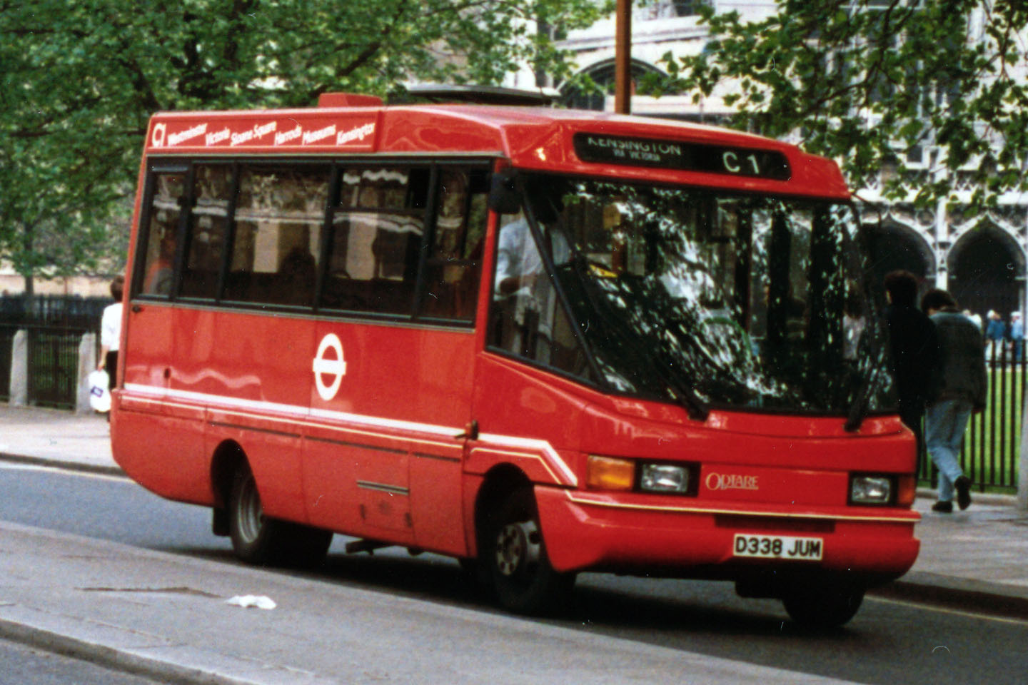 Optare City Pacer D338 JUM London Buses Ltd OV6 new September 1986. Photographed by RXUYDC